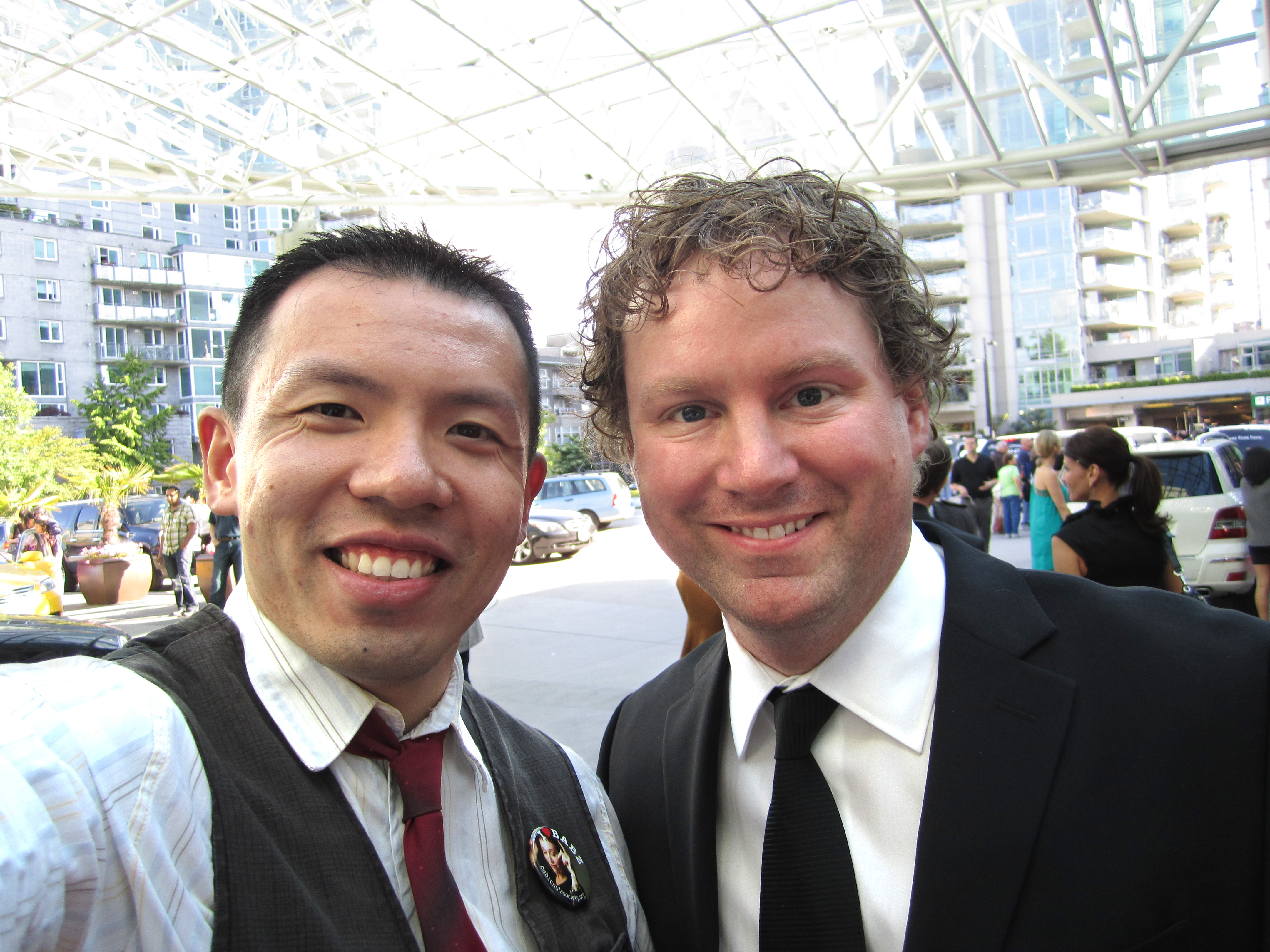 Patrick Gilmore on the right.